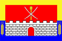 Flag of Prochnookopskoe rural settlement, Krasnodar Territory, Russia